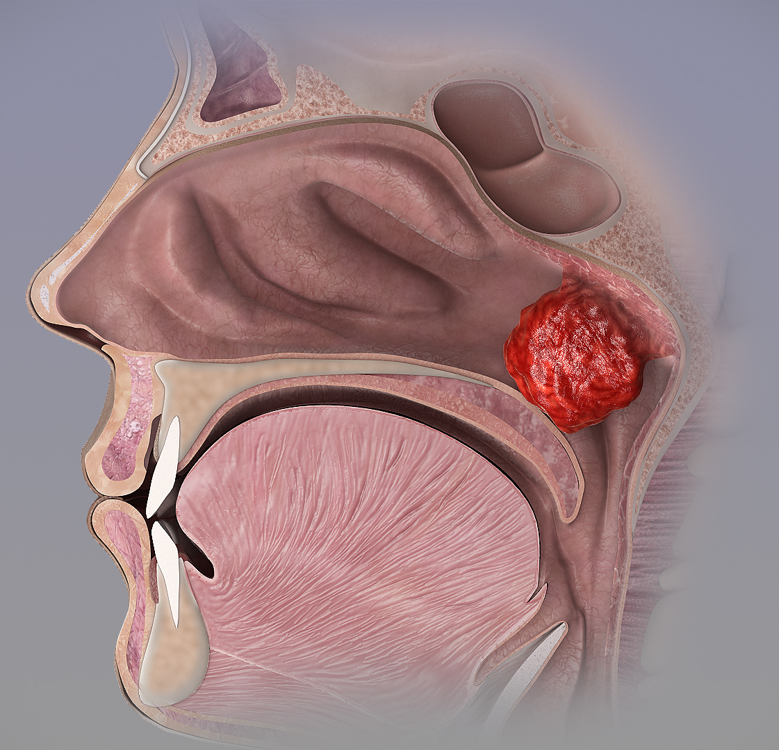 Adenoids become large enough to completely block the airflow through the nasal passages.